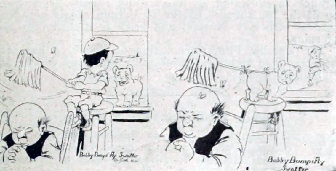 Illustration of a review in The Moving Picture World